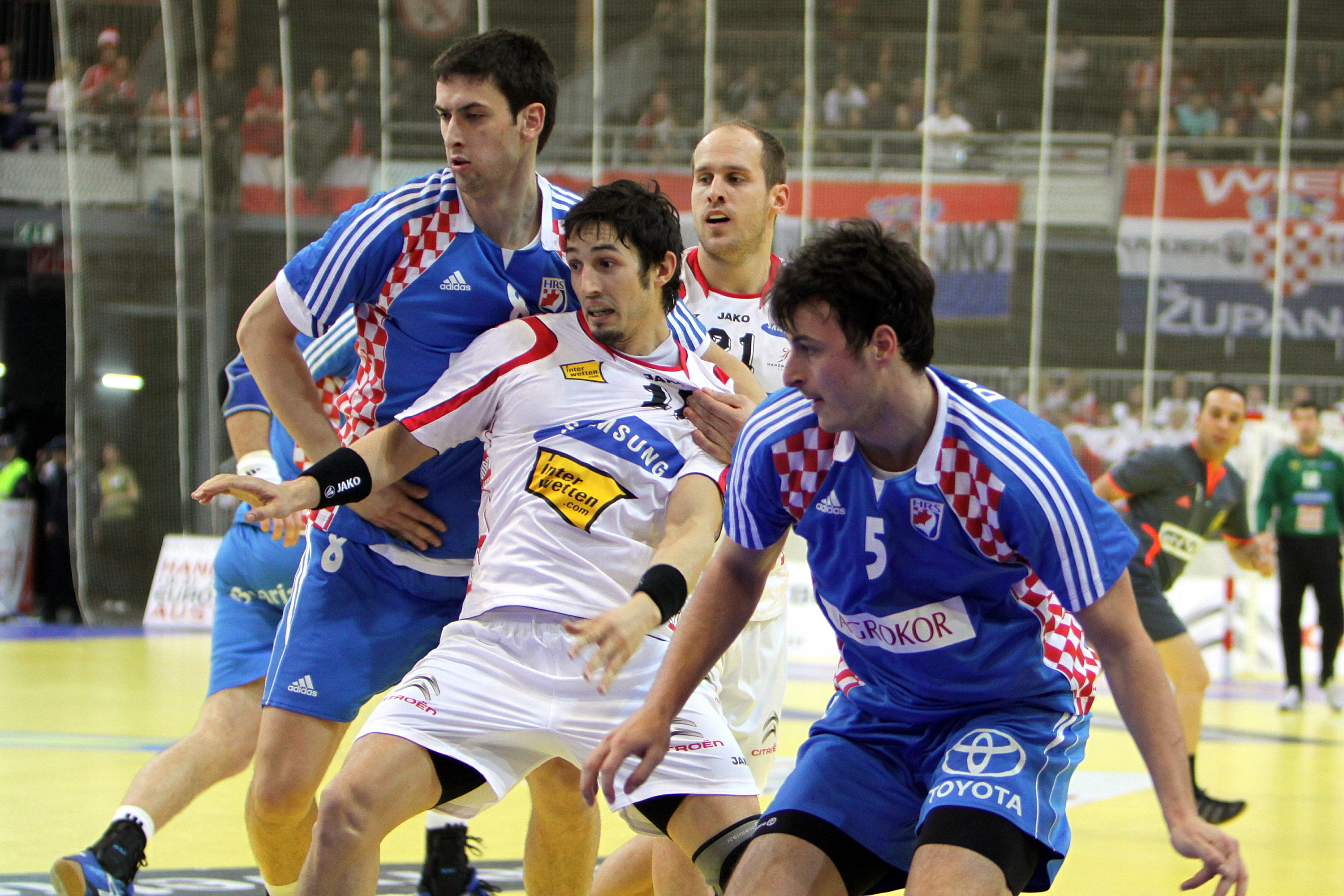 Lucas Mayer (Austria national handball team), white shirt) blocked by Marko Kopljar (left) and Domagoj Duvnjak (Croatia national handball team